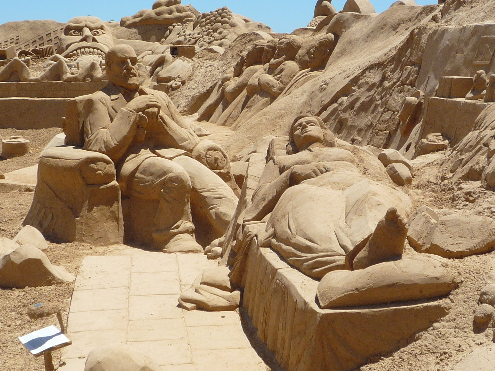 The theme of the Seventh International Sand Sculpture Festival was "discoveries". Here Sigmund Freud has a session with a patient.